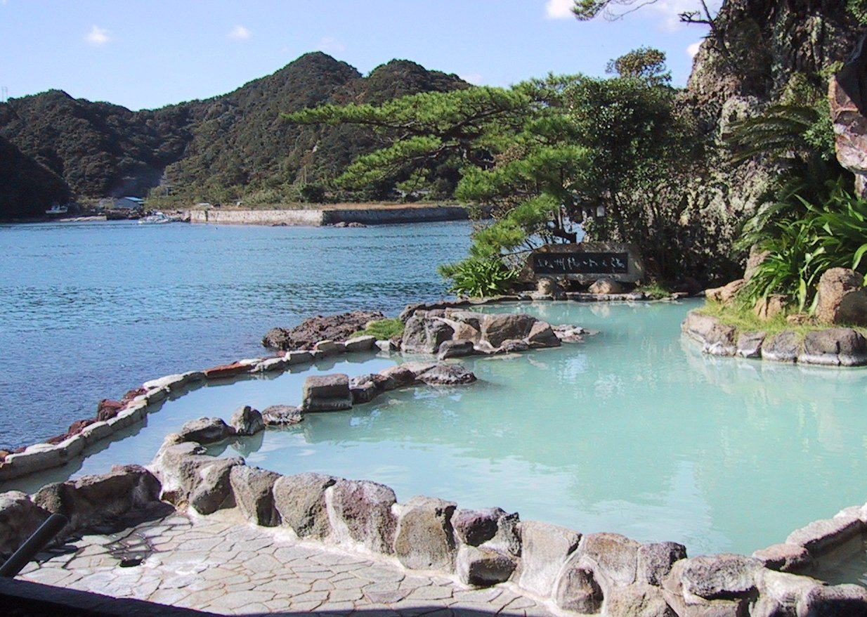 Outdoor Onsen of the Nakanoshima Hotel on Nakanoshima island in Nachikatsuura, Wakayama Prefecture, Japan. The island has six different hot springs with high sulfur content. (The pool was closed for cleaning when the image was taken. On this day, the pool was assigned for men).